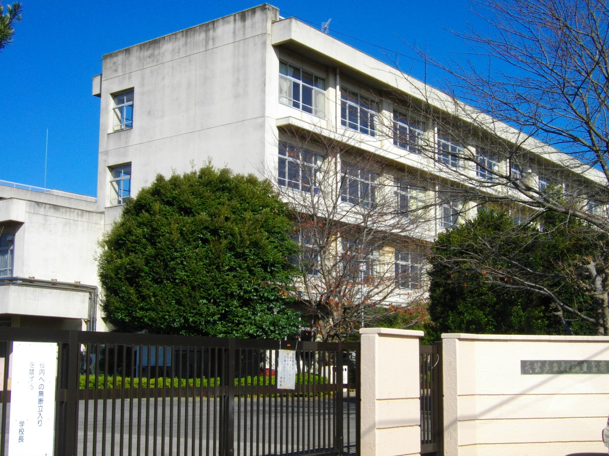 Funabashi-Toyotomi High School